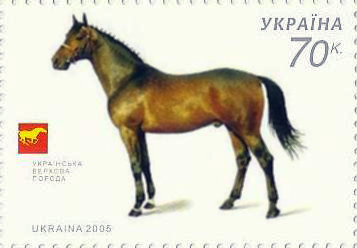 Stamps of Ukraine, Ukrainian riding horse